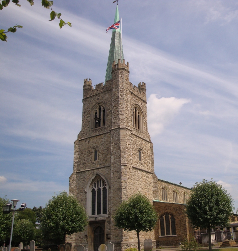 St Andrews Church, Hornchurch